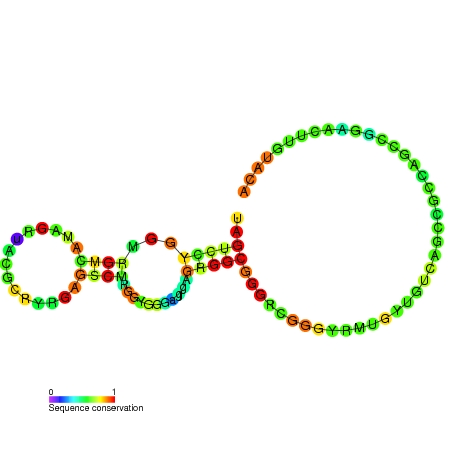 Secondary structure image for GRIK4_3p_UTR non coding RNA (RF01383). Nucleotide colouring indicates sequence conservation between the members of this family.